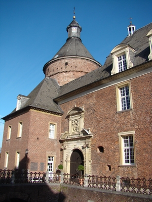 Castle Anholt